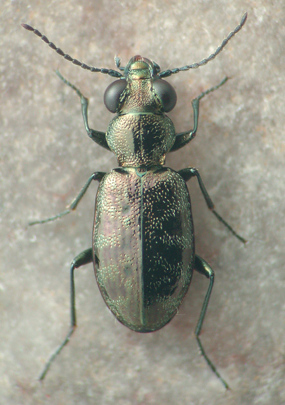 Asaphidion yukonense male, location: Canada: Alberta: Rock Lake